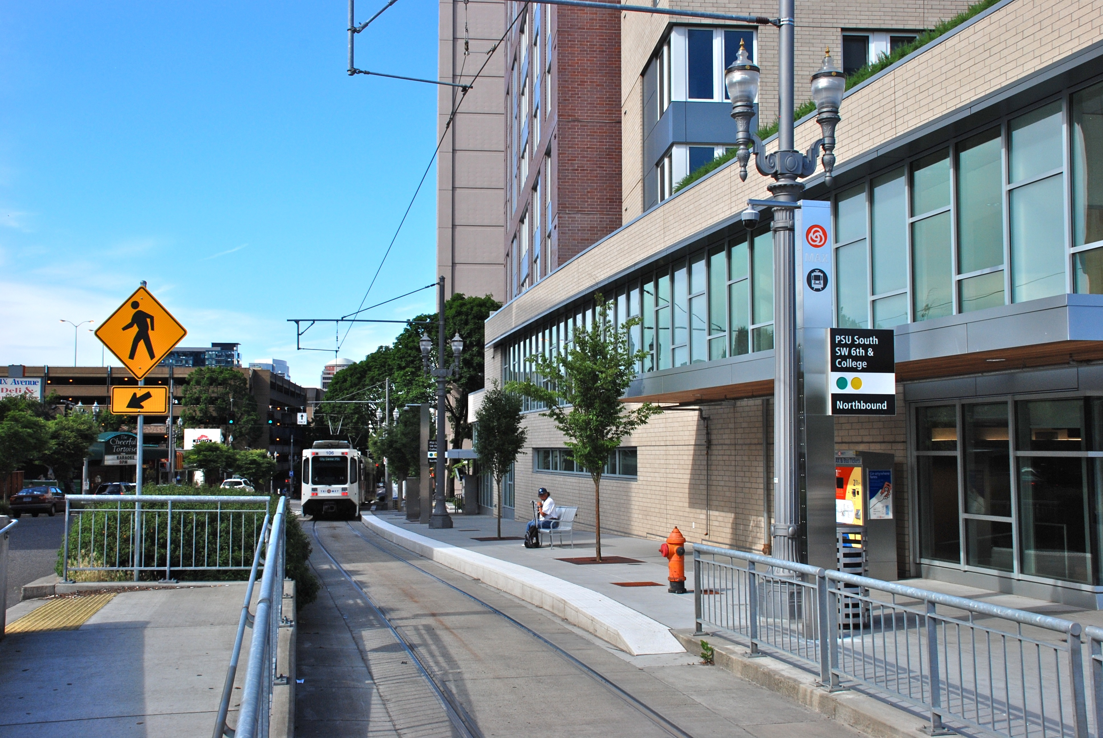 The PSU South/SW 6th & College MAX station, located on 6th Avenue immediately south of College Street in downtown Portland, opened in September 2012. (The official station name has a slash in it, as do most MAX station names, but the slashes are not shown on the platform signs [the layout of the words sufficiently implies it, and presumably TriMet's graphics department feels the signs look better without the slashes], and Commons does not permit slashes in file names.) The tracks passing the site came into regular use in late August 2009, but construction of the two stations here – a northbound station on 6th Avenue and a southbound station on 5th – was delayed until after existing buildings in the block were demolished and replaced by a new apartment building (seen here).